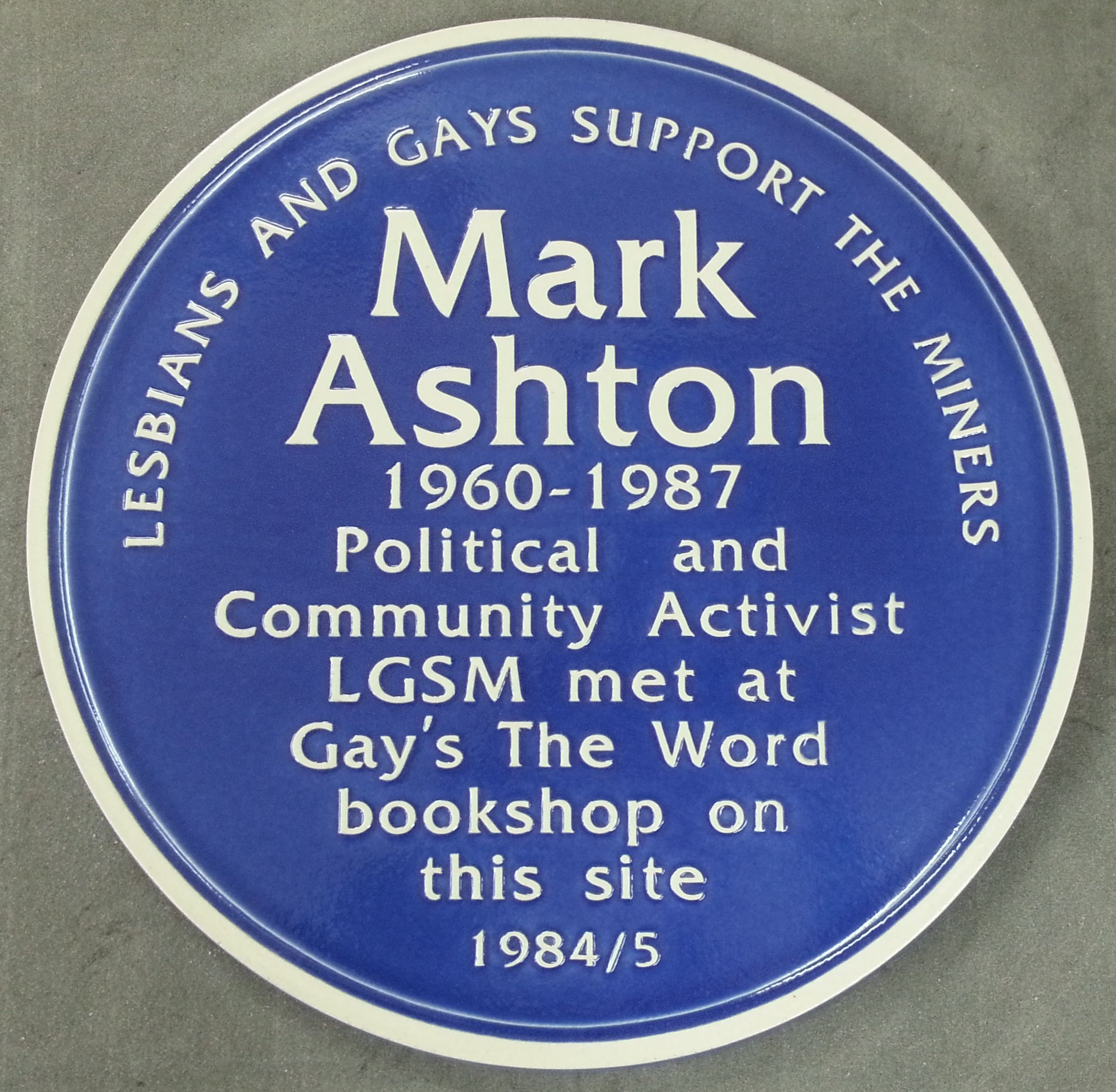 Mark Ashton was co-founder of Lesbians and Gays Support the Miners (London) 1984/5. LGSM met at Gay's the Word bookshop located at 66 Marchmont Street, London WC1N 1AB, UK. His character is portrayed by actor Ben Schnetzer in the movie PRIDE (Pathé) 2014.